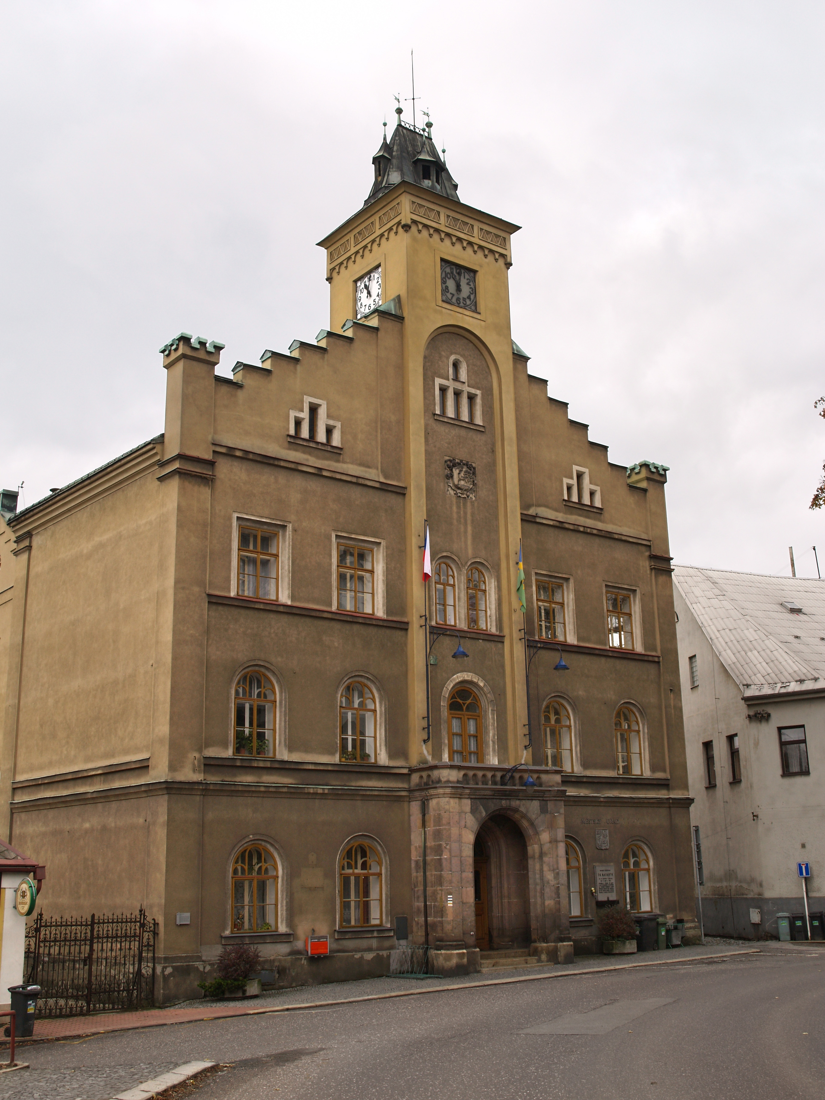 Town hall in Czech town Semily